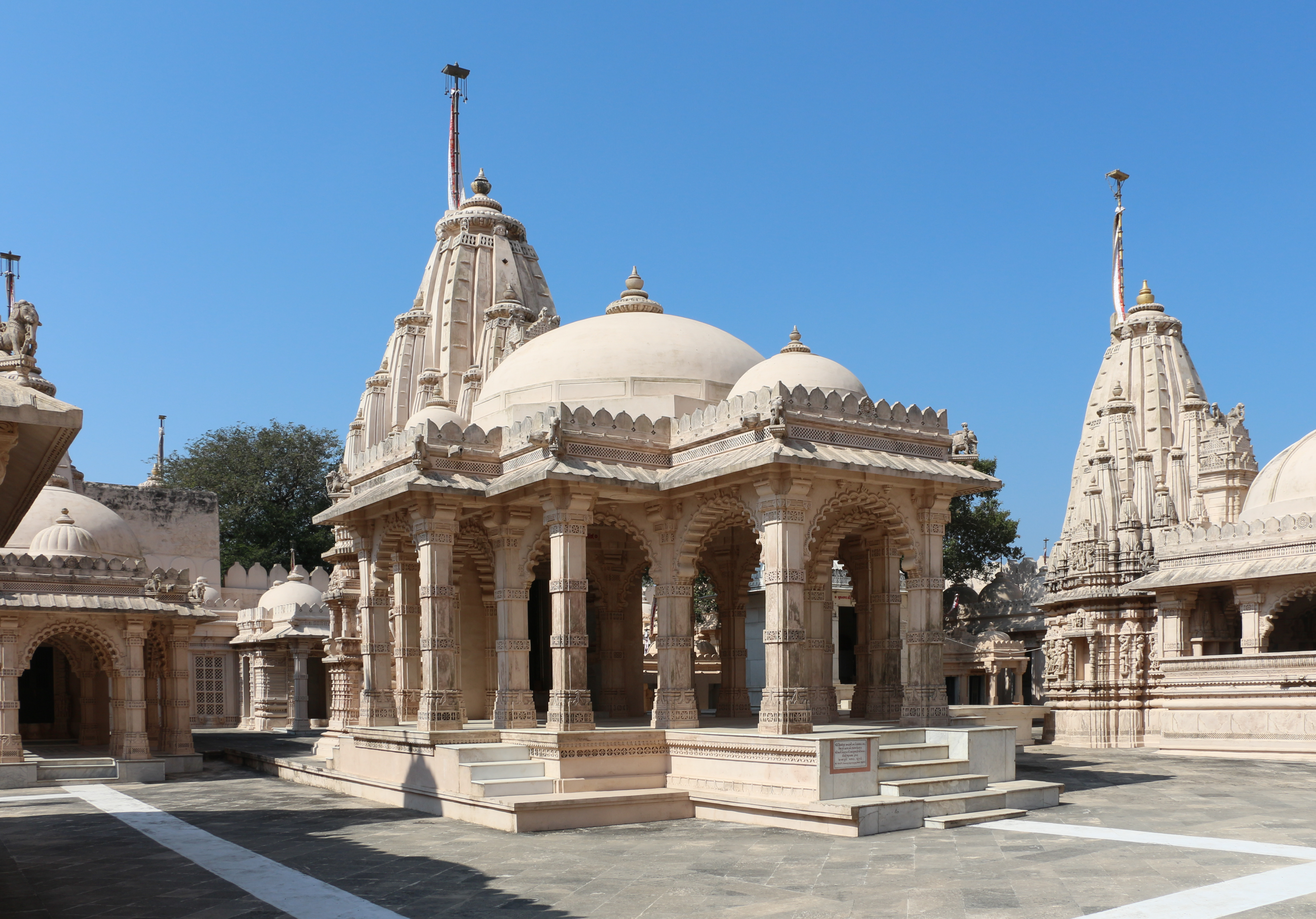 A temple inside the Chaumukhji Tonk, Palitana temples complex, Palitana, India